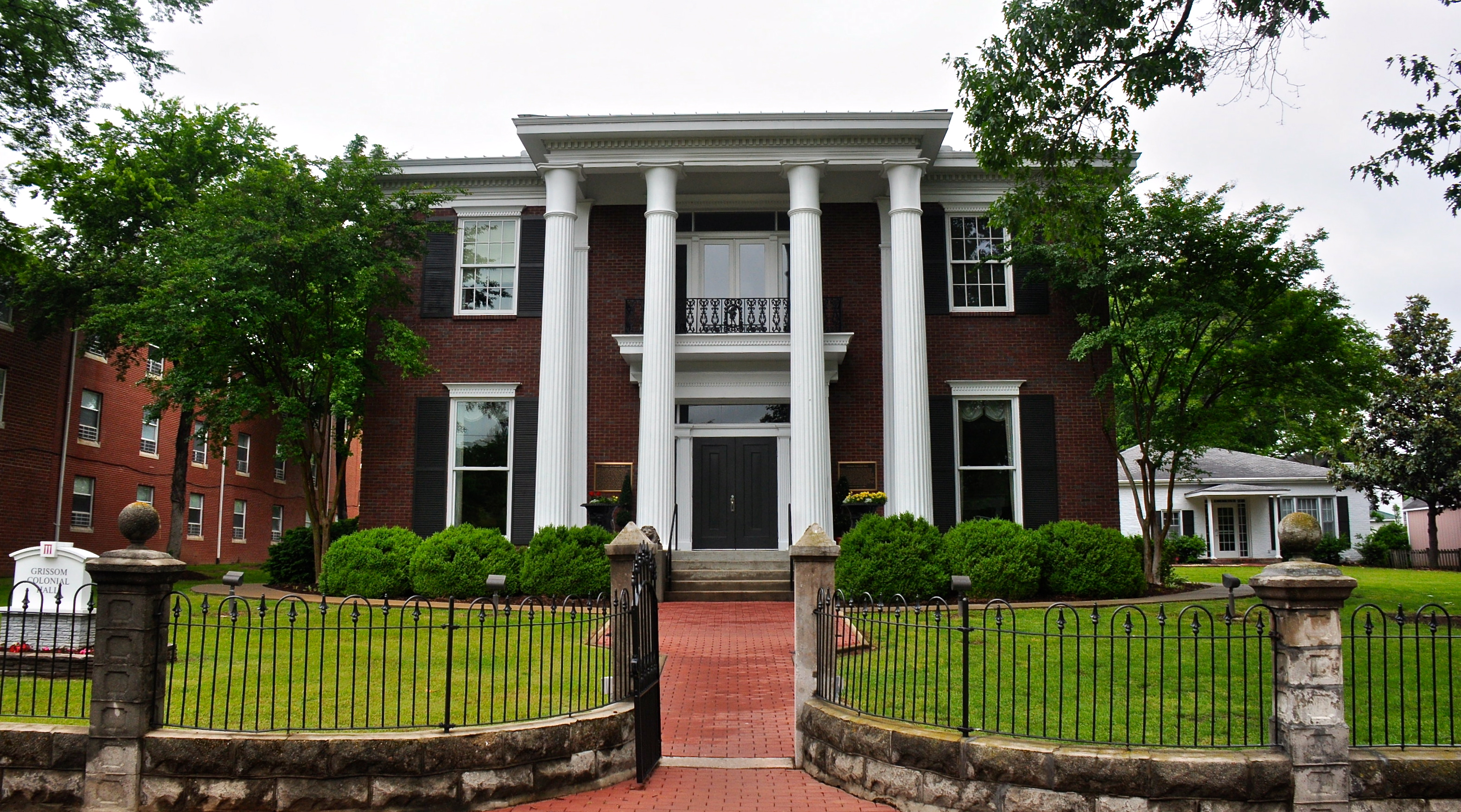 Located at Martin Methodist College, Pulaski, Giles County, Tennessee.